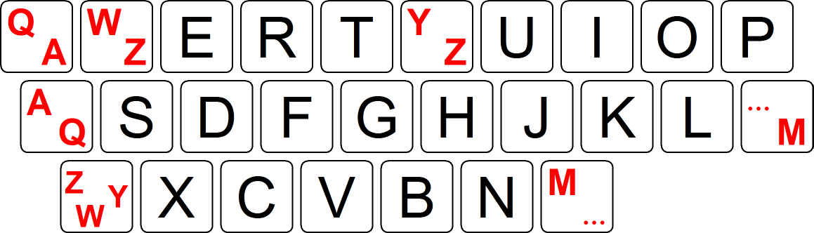 Recommended (but not required) distribution of letters on a keyboard layout containing the basic Latin alphabet according to ISO/IEC 9995-2:2009. The letters shown in red show alternatives treated equal by that standard. The QWERTY, QWERTZ, and AZERTY layouts are compliant with this.